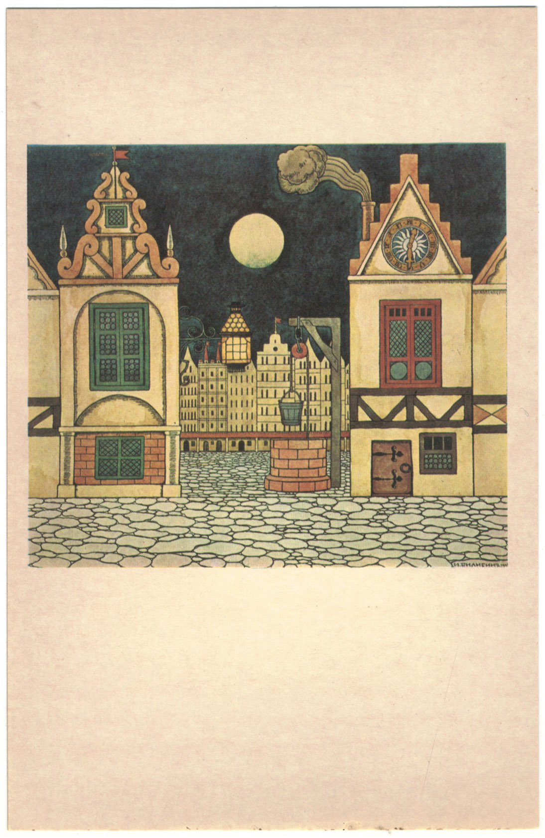 BILIBIN, Ivan (1908) . 'Honour and Revenge', by Fiodor Sollogub_Bakhrusbin Central Theatre Museum (Moscow)